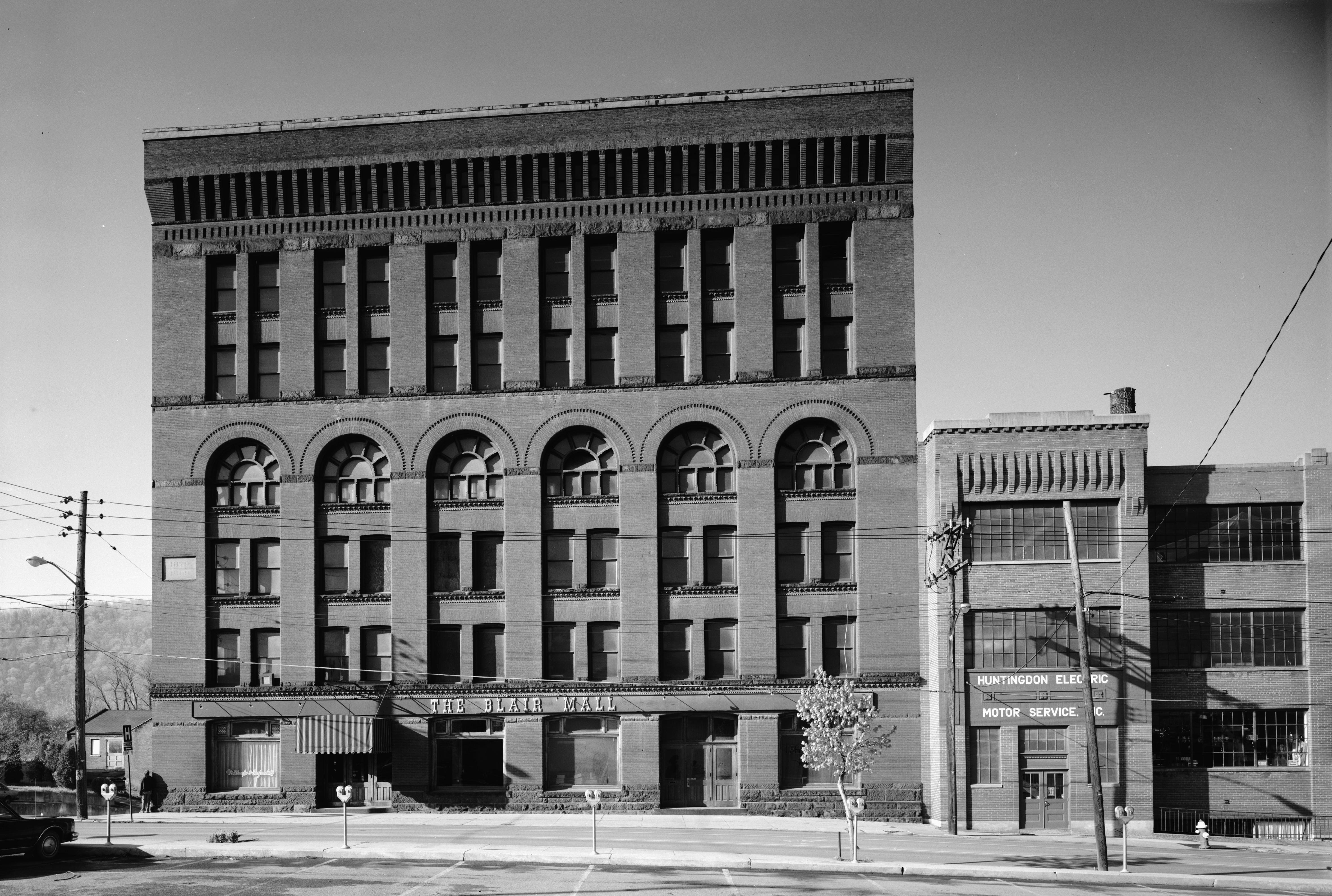 Front of Building A of the J.C. Blair Company Complex, located on the corner of Sixth and Penn Streets in Huntingdon, Pennsylvania, United States. When it was built, it was claimed to be the tallest structure between Pittsburgh and Philadelphia. Built in 1889, it is part of the Huntingdon Borough Historic District, a historic district that is listed on the National Register of Historic Places.